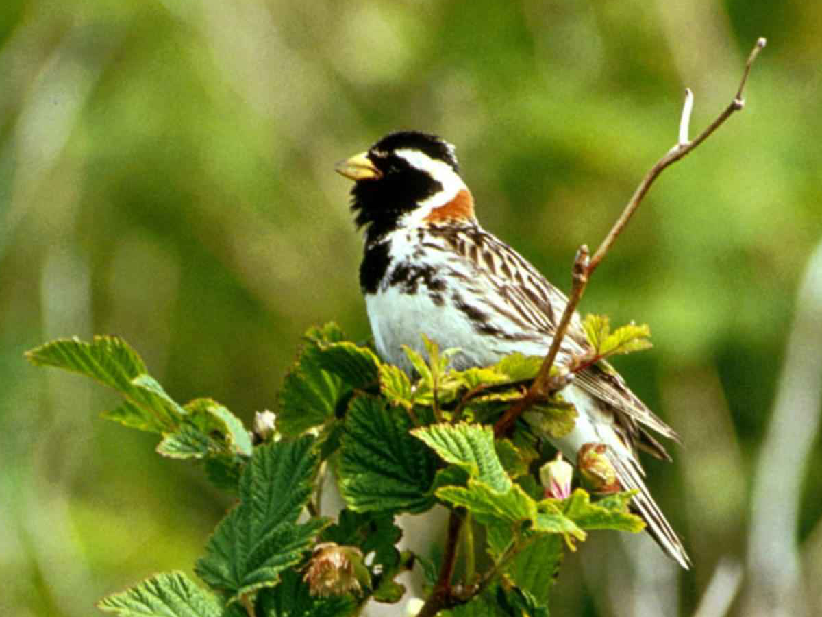 Lapland Bunting (Calcarius lapponicus)